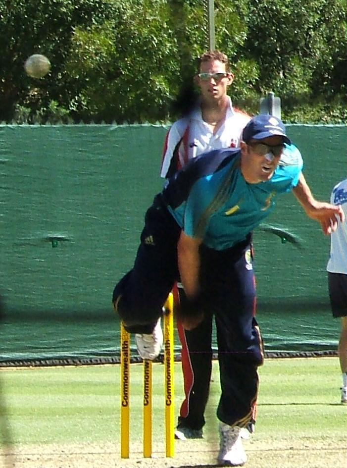 Mike Hussey at a training session at the Adelaide Oval